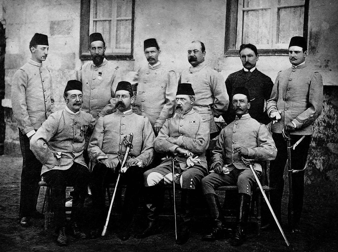 William Hicks Pasha and his staff for Sudan campaign in 1883. Standing (from left to right): Captain Massey, Colonel Arthur Farquhar (Q.M.G.), Major Warner, Sergeant Brady (Hicks orderly), Captain Edward Baldwin Evans (intelligence officer, interpreter), Captain Forestier Walker. Seated (from left to right): Colonel John Colborne, Major Martin, General William Hicks Pasha, colonel Henry de Coëtlogon Pasha.